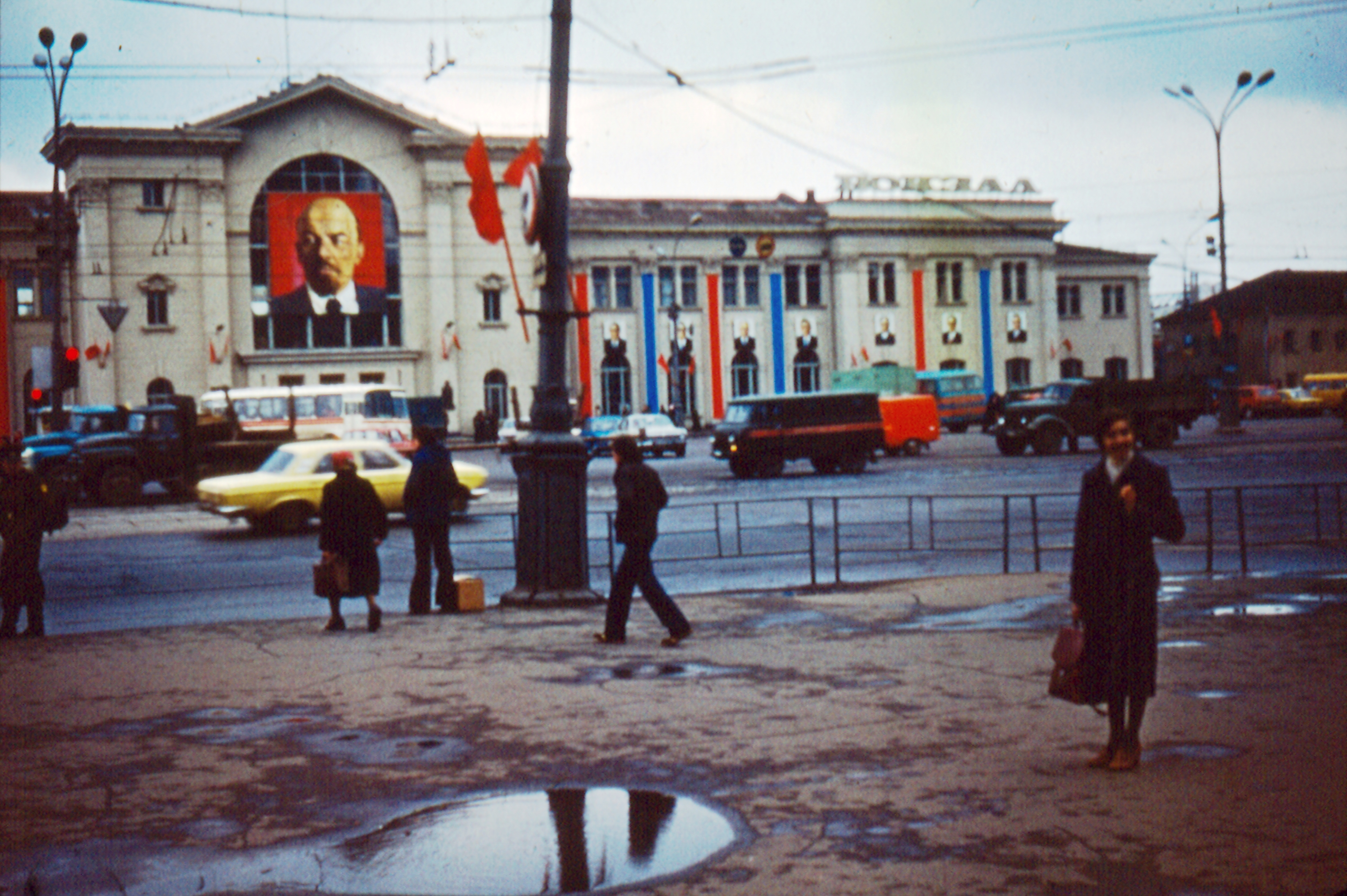 In front of the railway station in Minsk, Belorussian SSR, 1981.